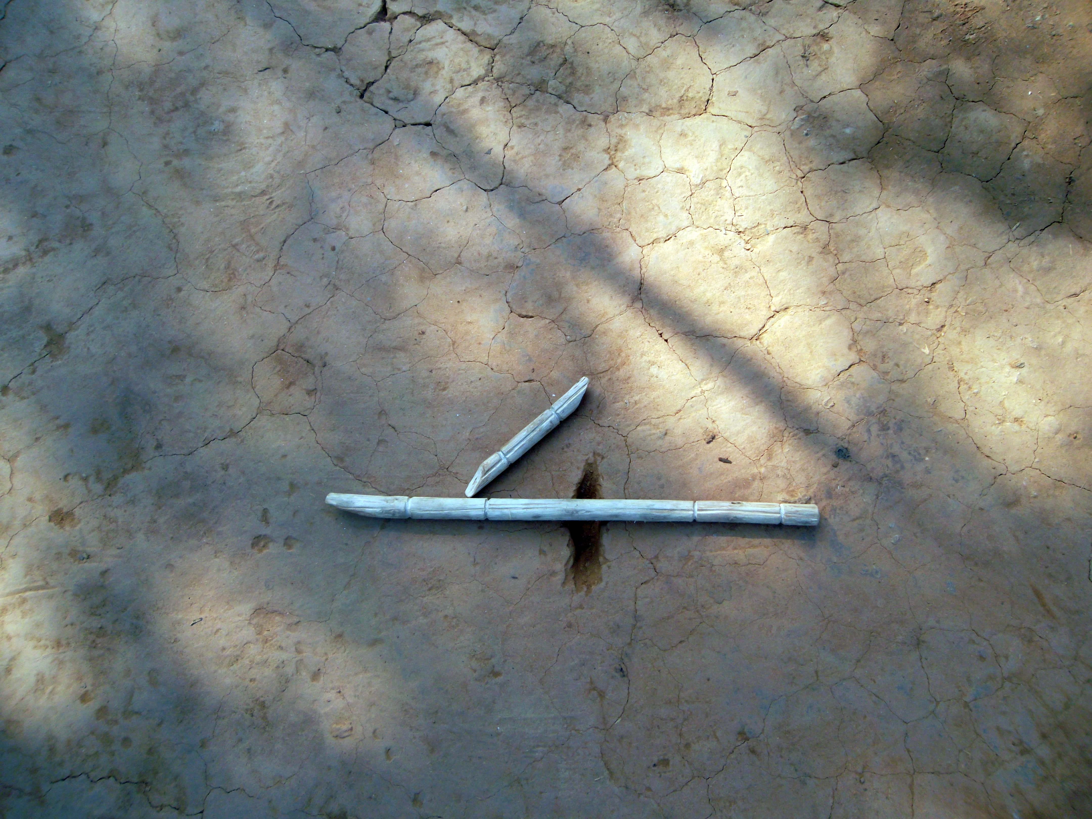 Biyo & Dandi - equipment of game Dandi Biyo played in rural Nepal, which was considered the national game till May 23, 2017.नेपाली: डन्डी बियो खेलमा प्रयोग हुने बियो र डण्डी ।